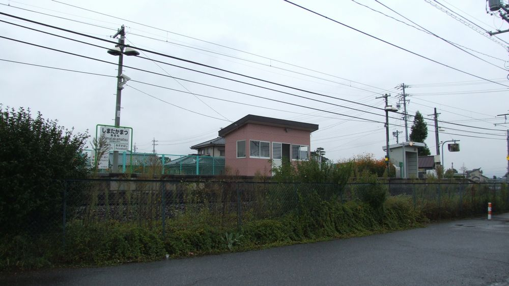 Shimatakamatsu Station